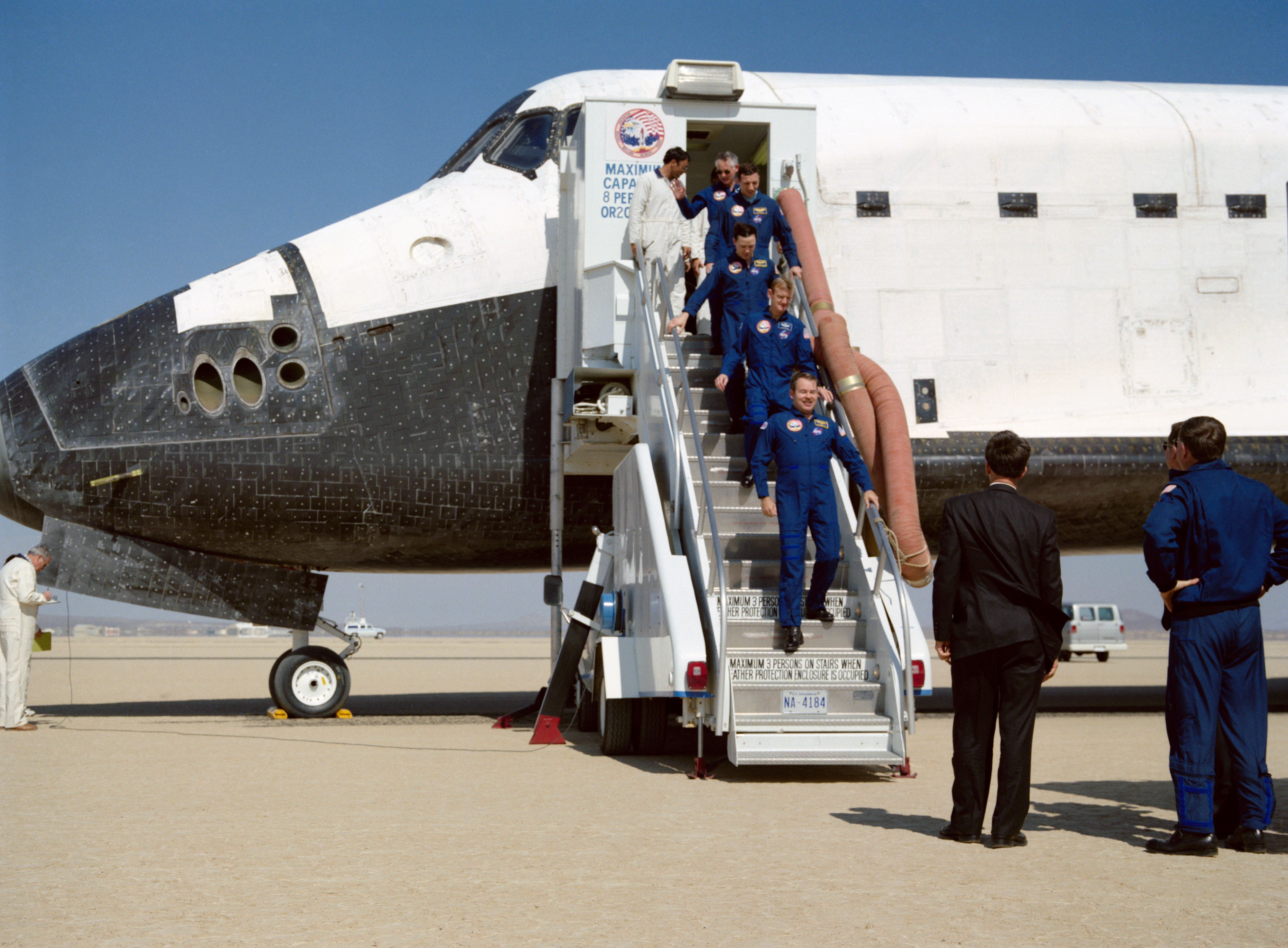 STS-36 Crew Egress.jpg